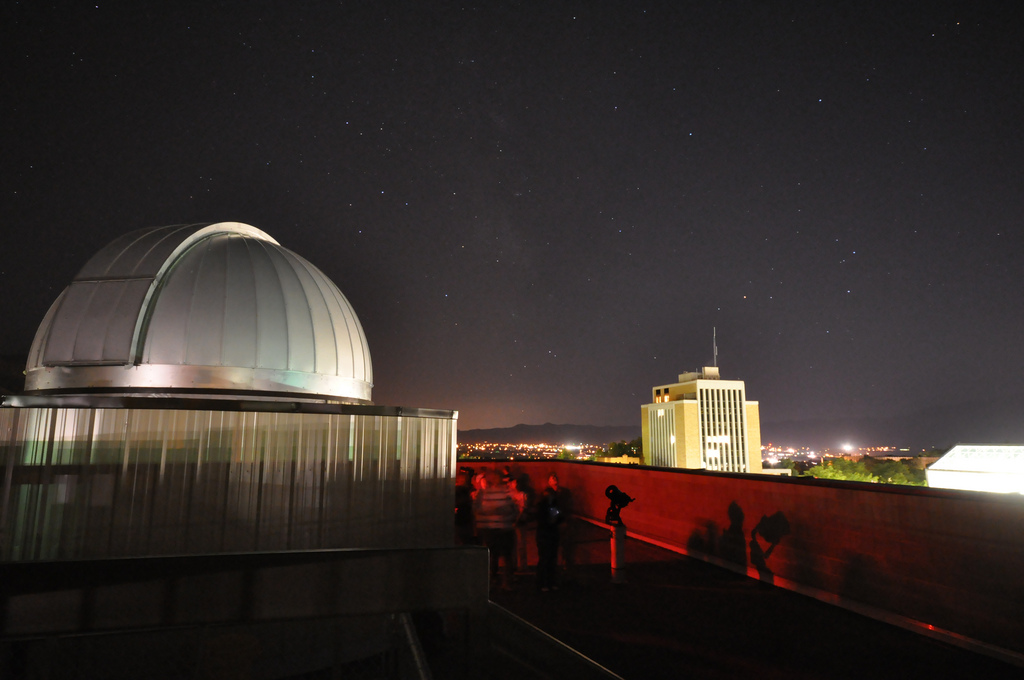 This image shows the new observatory added on top of the Science Engineering Research Building (SER) in 2009 for use by the Physics department at Utah State University.